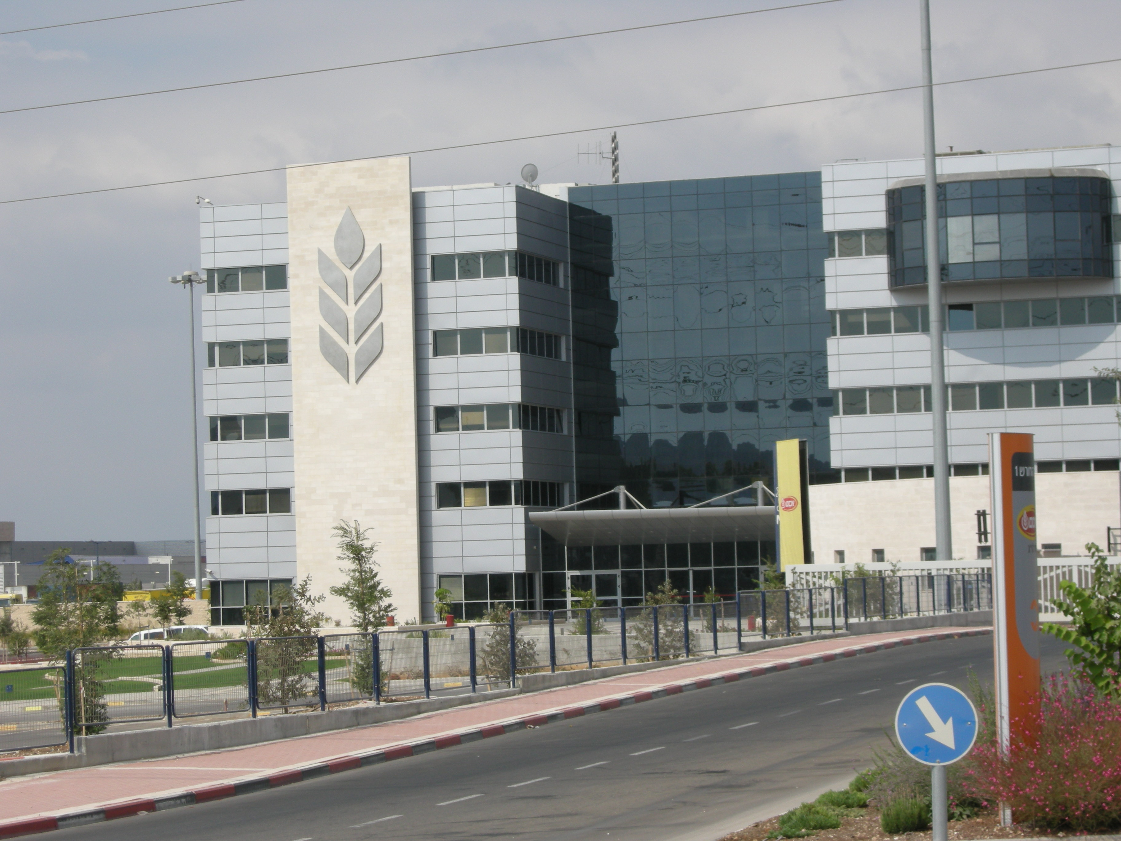 Israeli National trail, Ossem factory, Modiin city, Israel